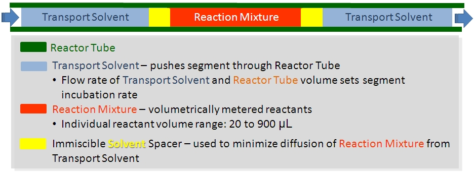 Segmented Flow Composition